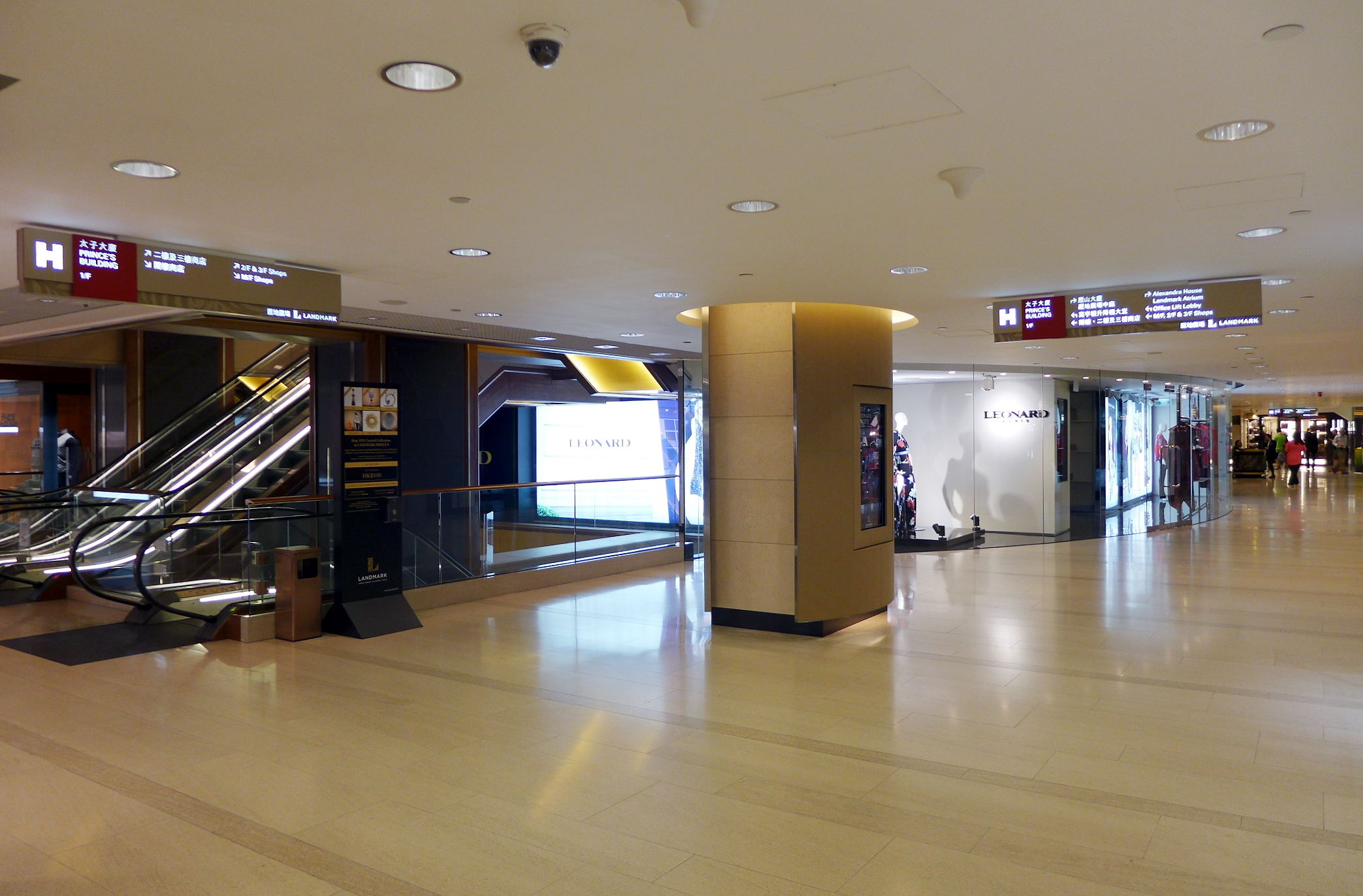 Princes Building Interio